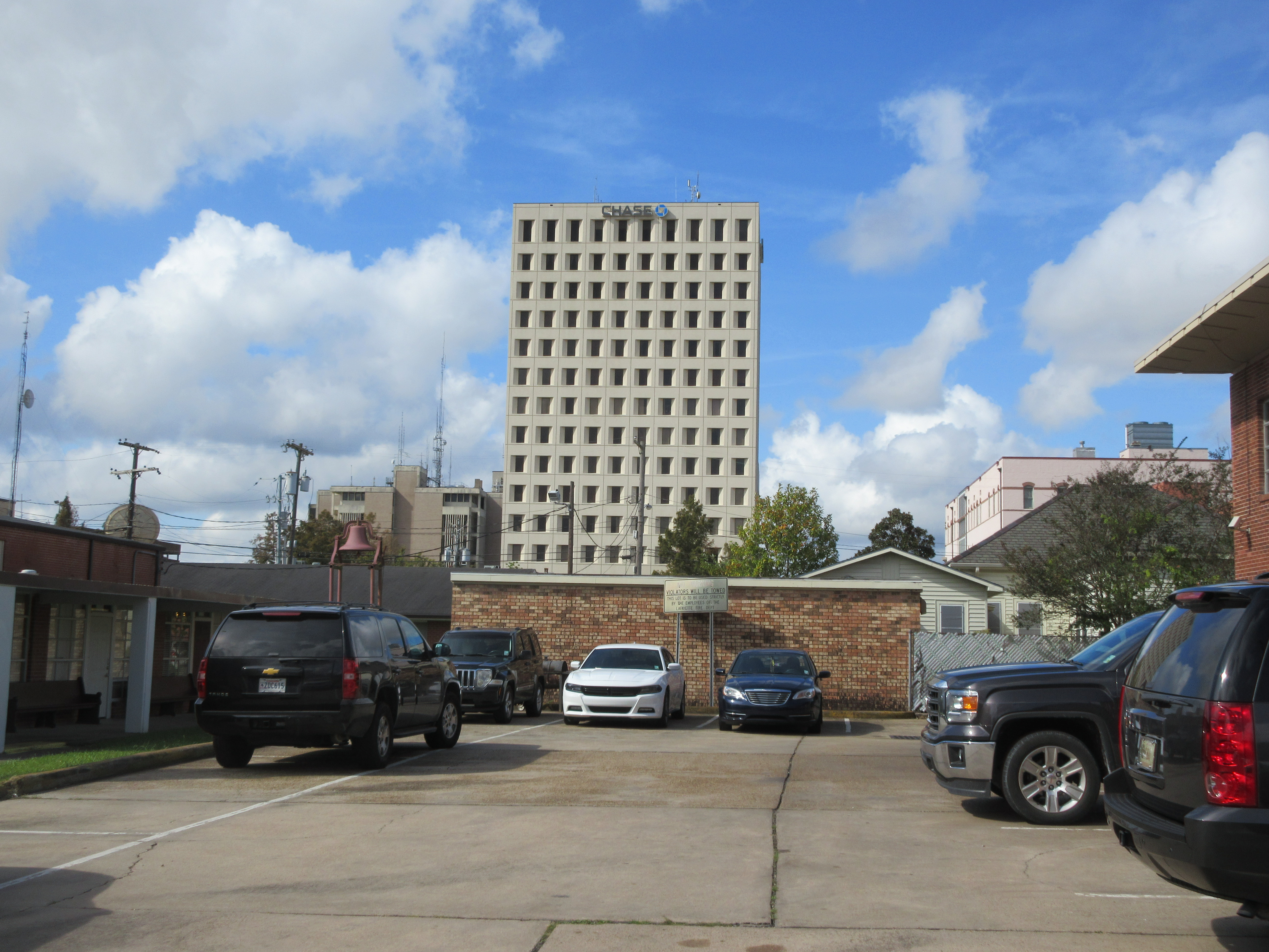 Lafayette, Louisiana. Photo by Infrogmation of New Orleans, 5 November, 2017. Free reuse with author attribution in accordance with any of the licenses listed by the author/photographer. Reuse without photo attribution is a violation of copyright.